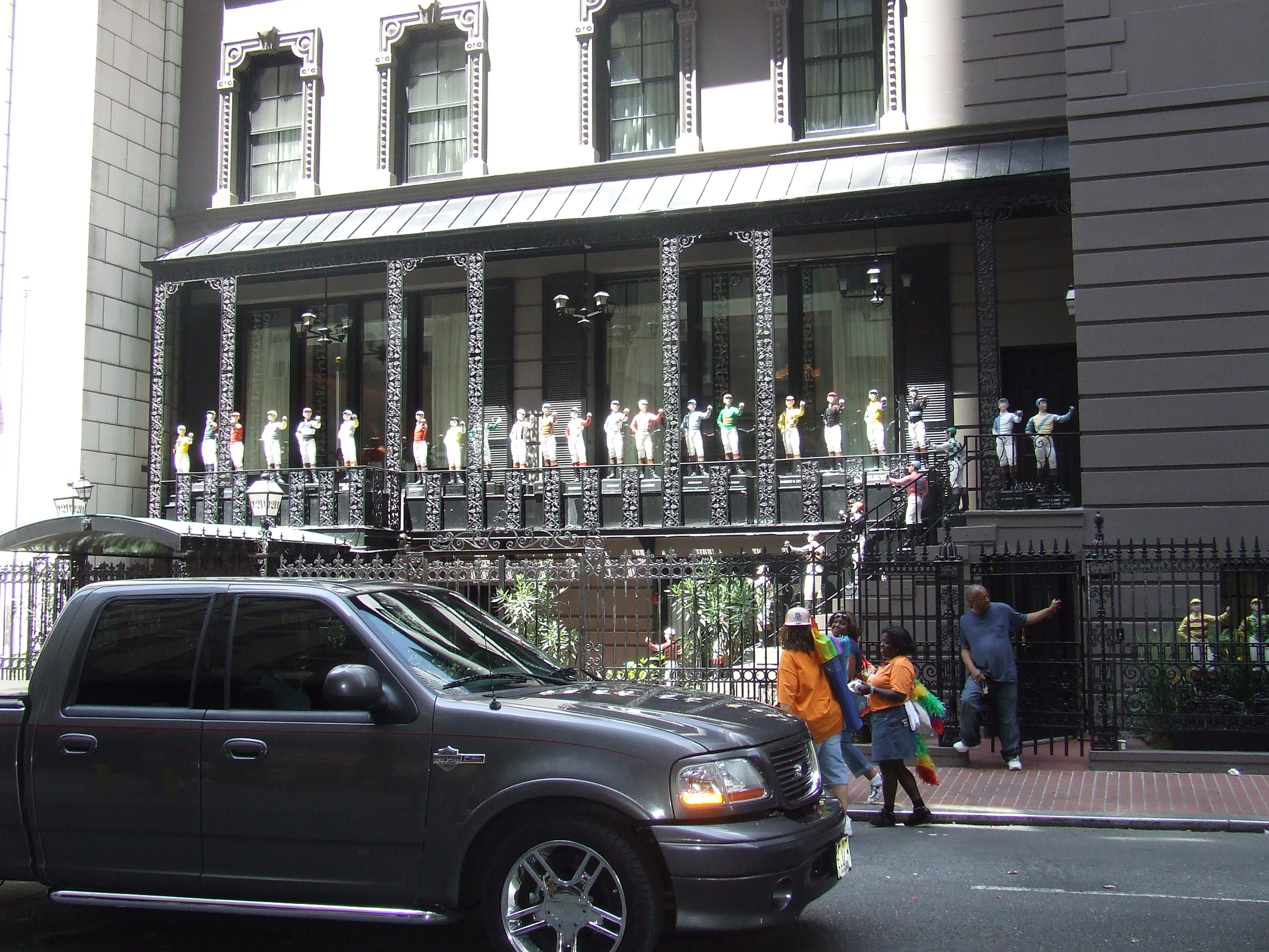 Looking northwest across 52nd Street at 21 club